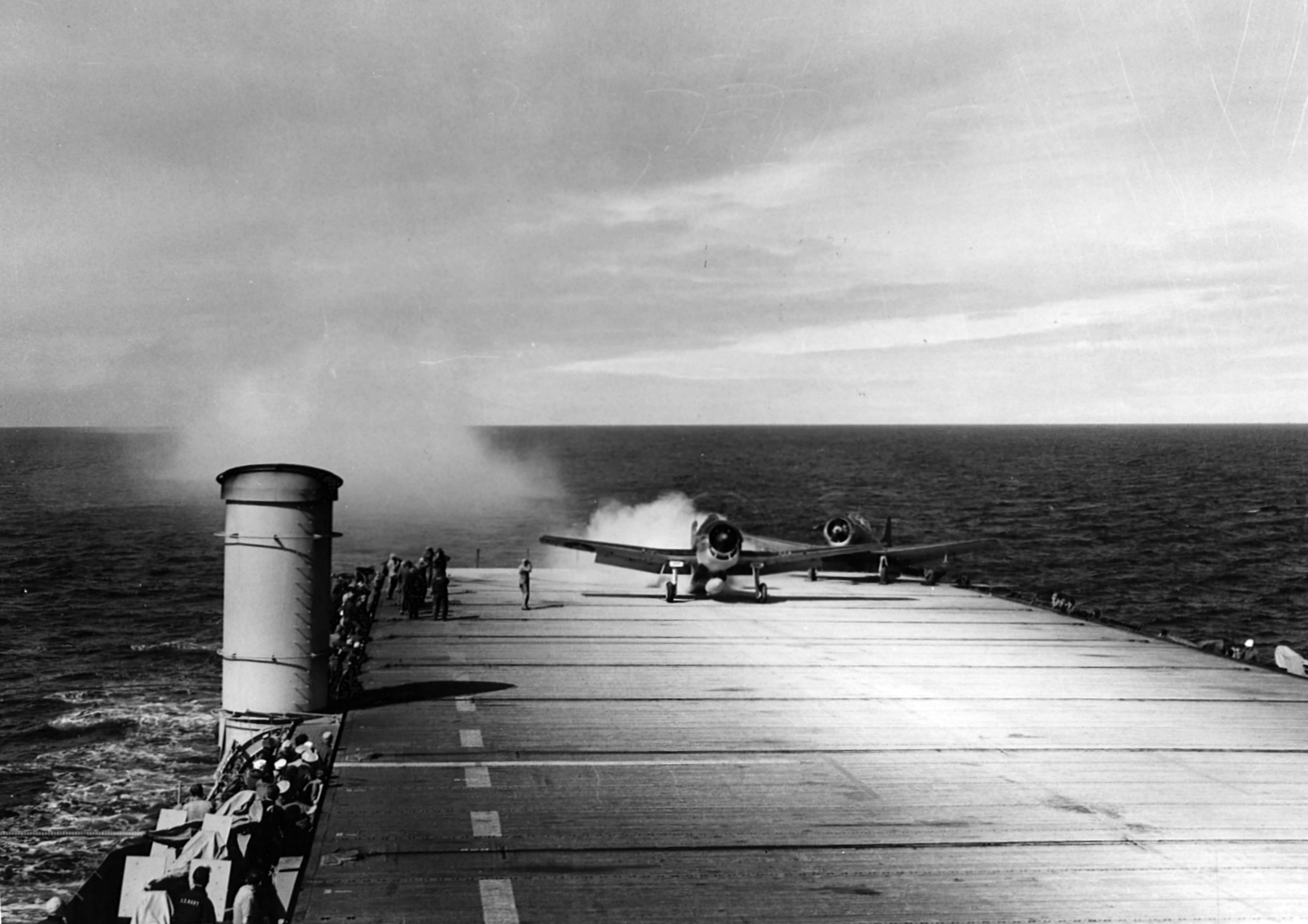 A U.S. Navy Grumman F6F-3 Hellcat aircraft starting jet assisted take off with full load from the flight deck of the escort carrier USS Altamaha (CVE-18). A Douglas SBD Dauntless is visible behind the F6F.